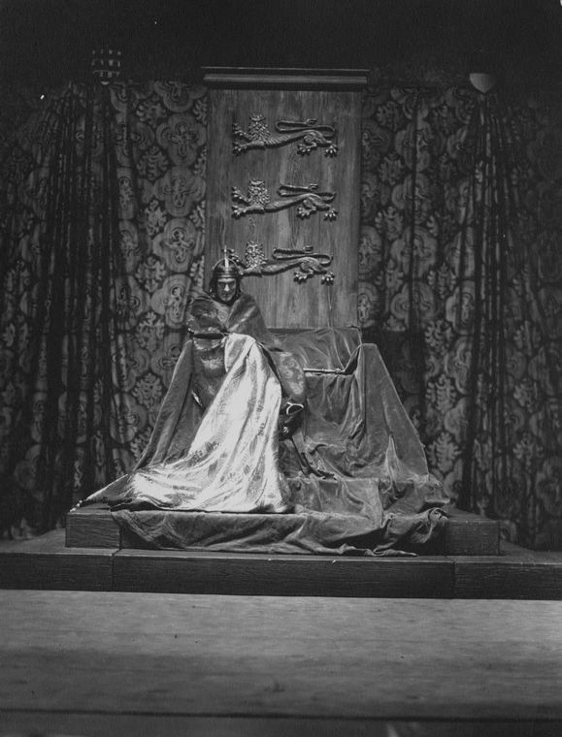 John Barrymore as the title role in King Richard III, Broadway